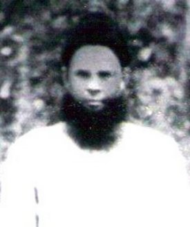 Photo of Ahmed Hossain